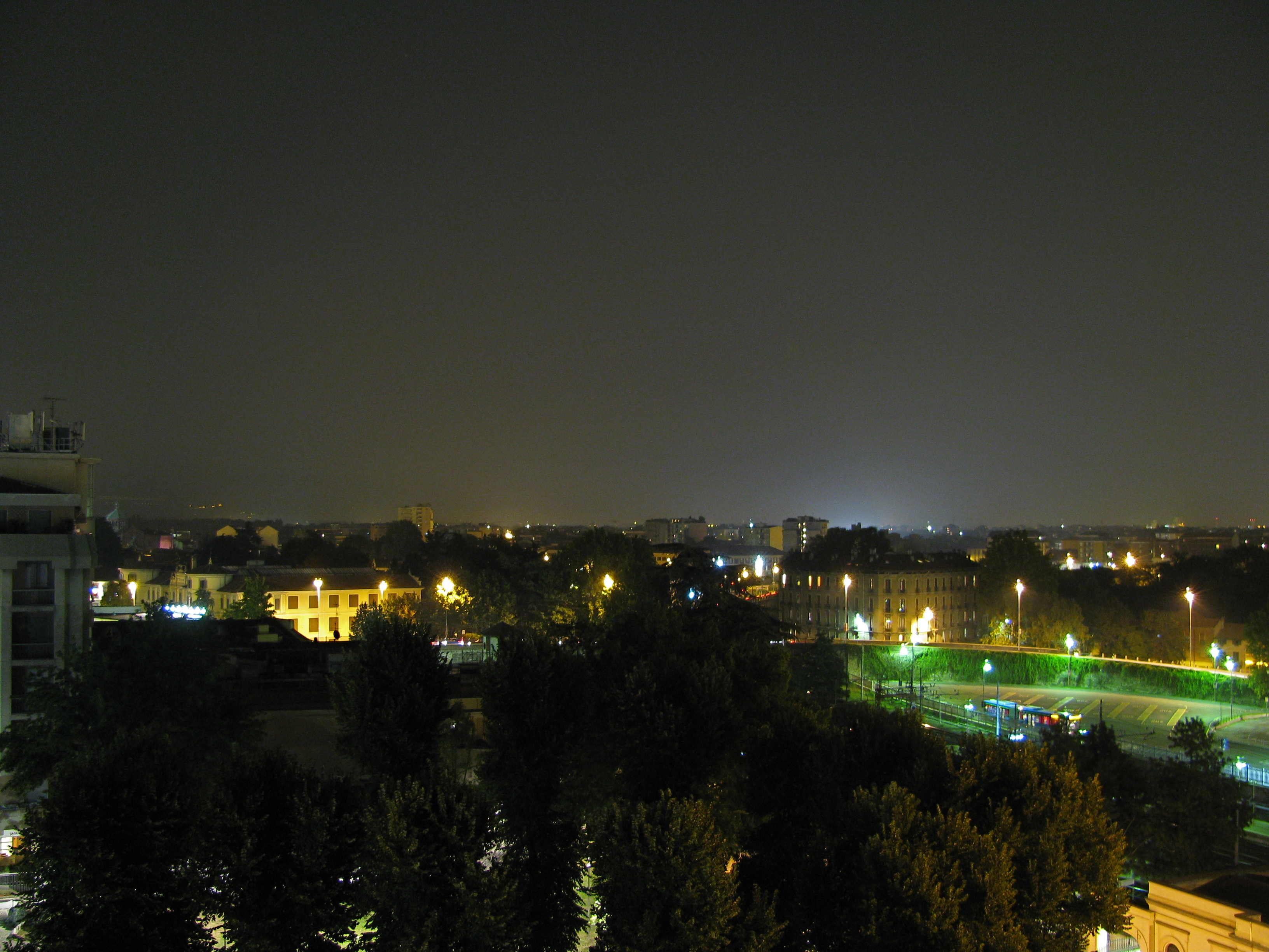 Monza (italy) , view by night